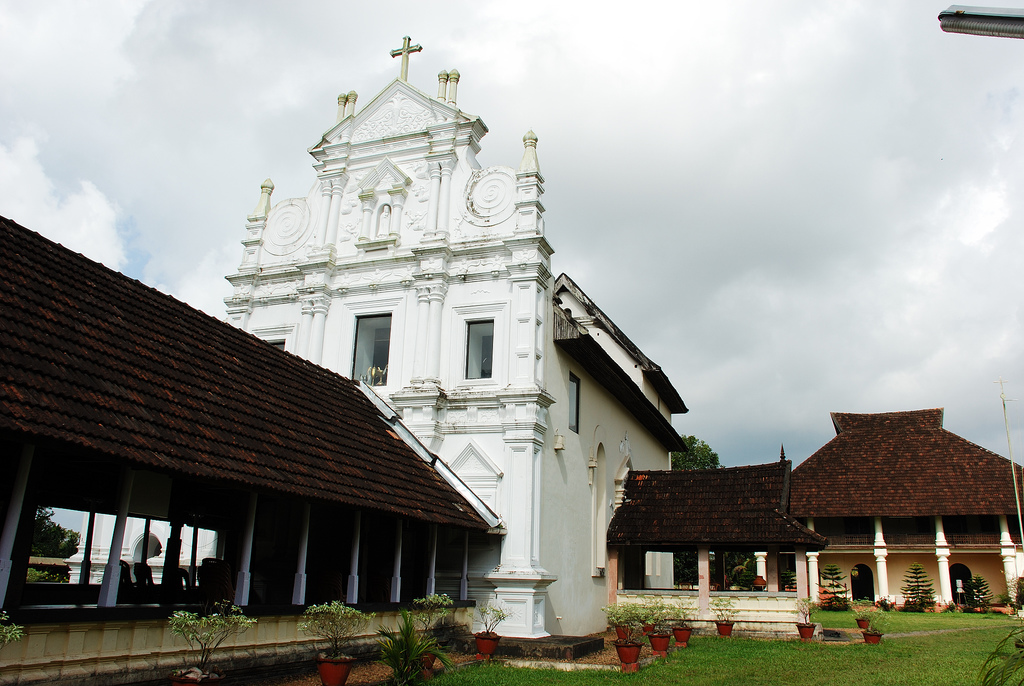 Kottayam Cheriapally Church as see during out drive from Kumarakom to Thekkady